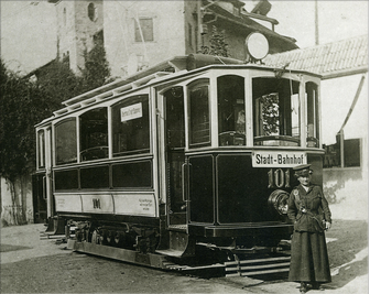 Conductress in front of a tram in Meran in southern Tyrol.